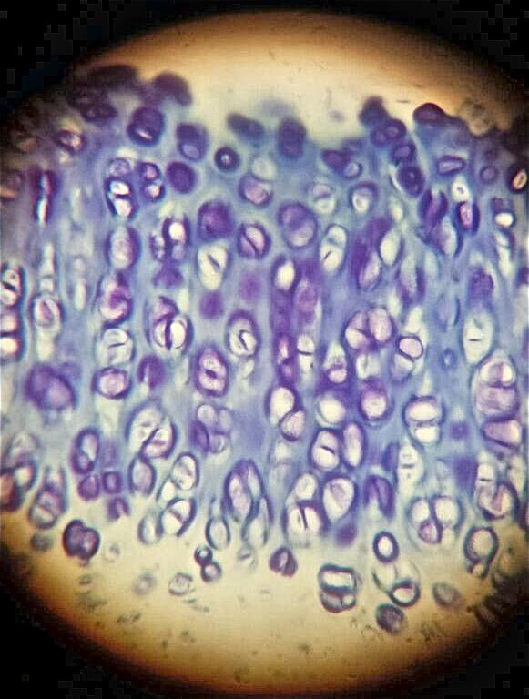 Hyaline cartilage coloured with the toluidine blue (basic dye) in wich you can observe the strong metachromasia of the ground substance, due to the presence of glycosaminoglycans (acid). Metachromasia consists in a switch of the color of a dye (purple in this case) when bound to specific chemical groups. View at optical microscope, 40x magnification.